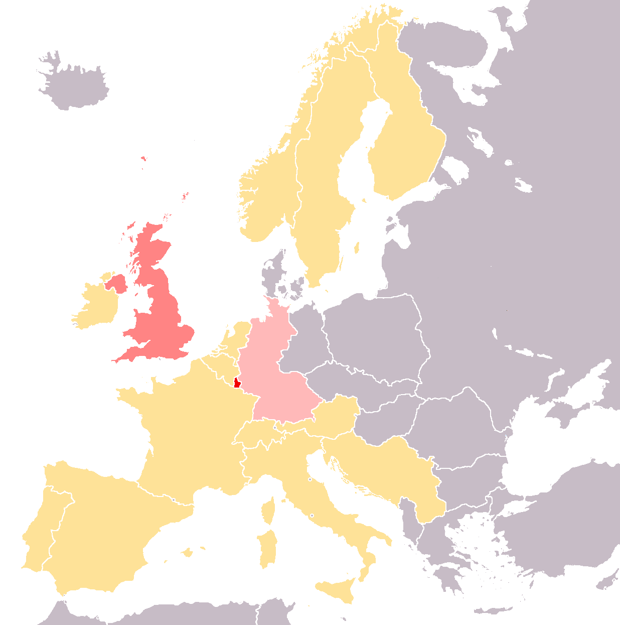 Map of Eurovision 1972